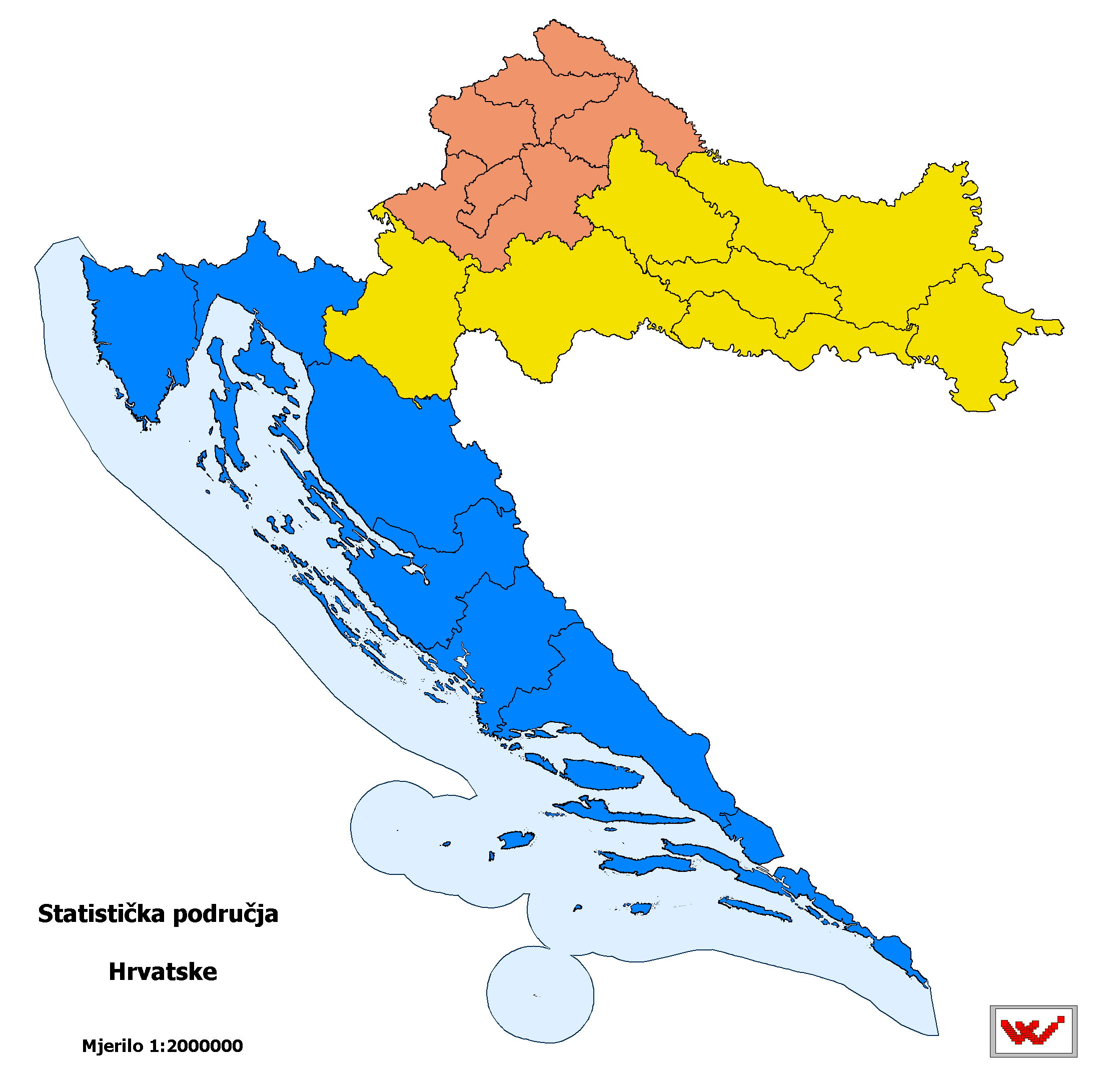 Statistical regions of Croatia - Eurostat